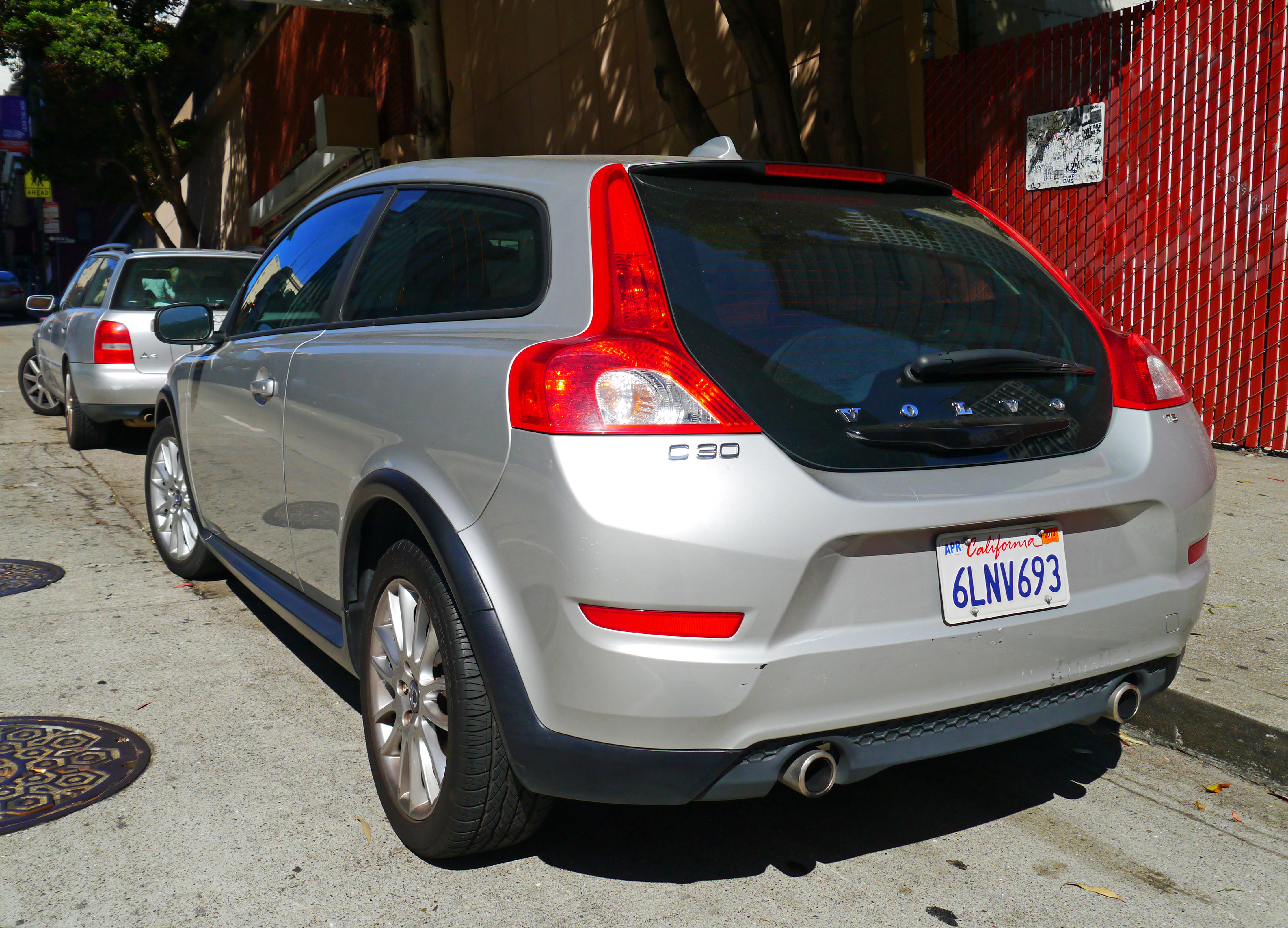 2011 Volvo C30 T5 - 2.5L 5 cyl. turbo engine (169 kW; 227 bhp).